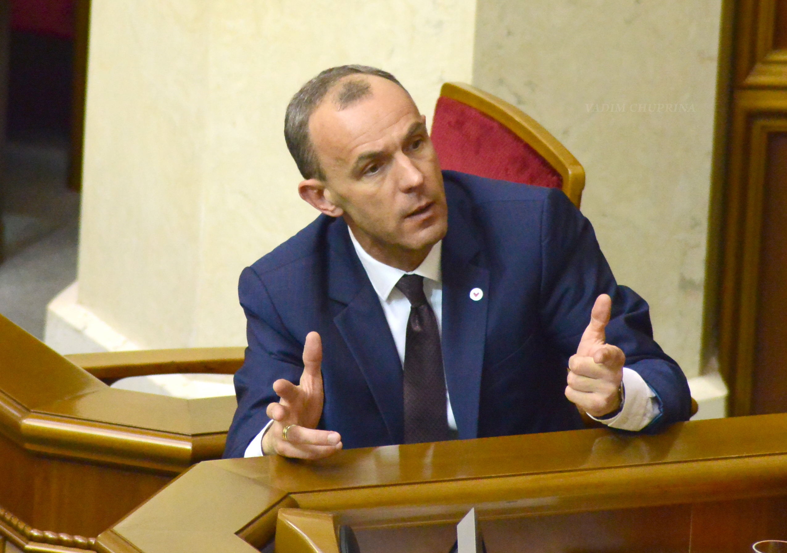 Ukrainian politicians VADIM CHUPRINA